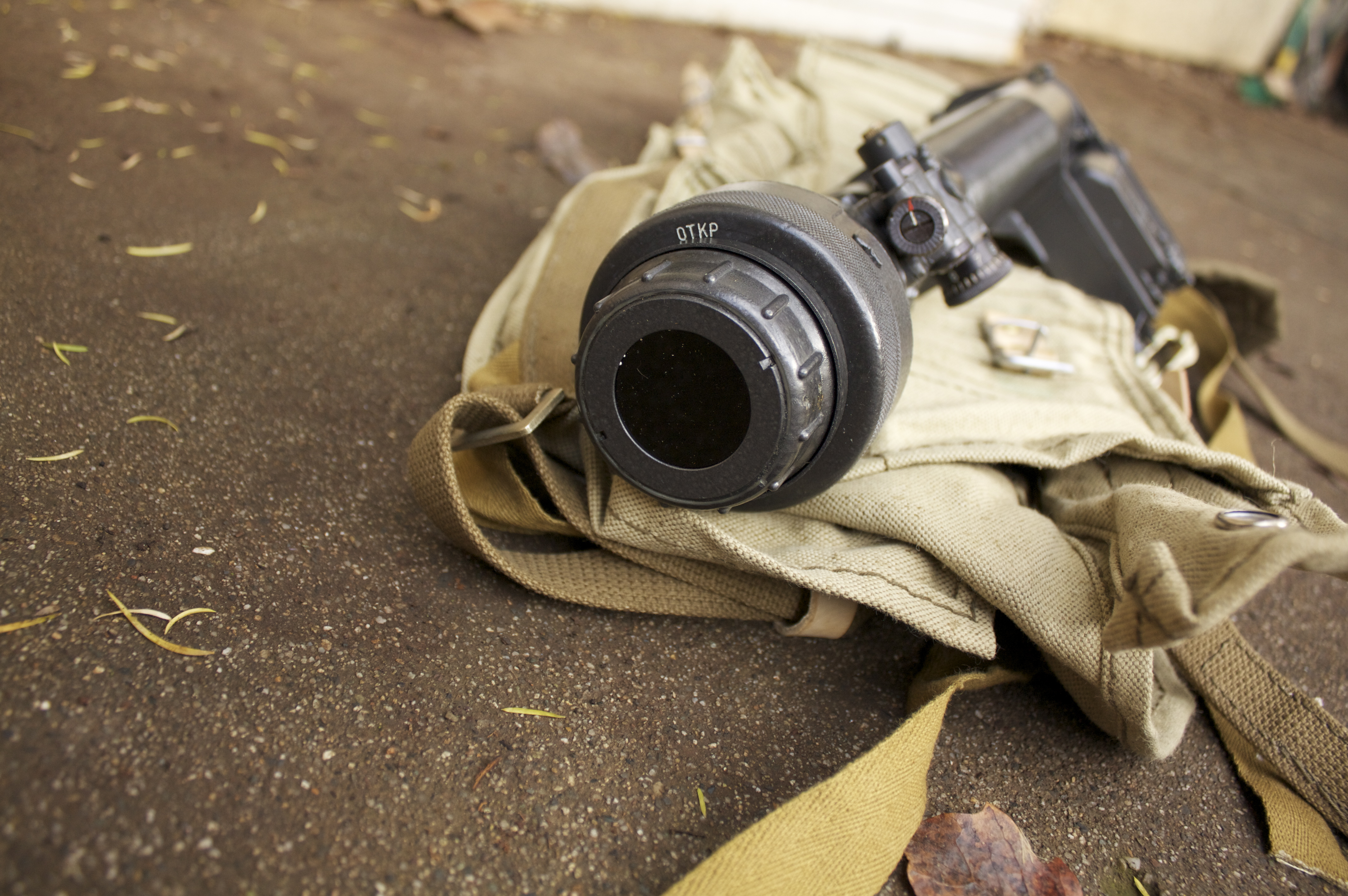 Russian Night Vision Scope NSPU